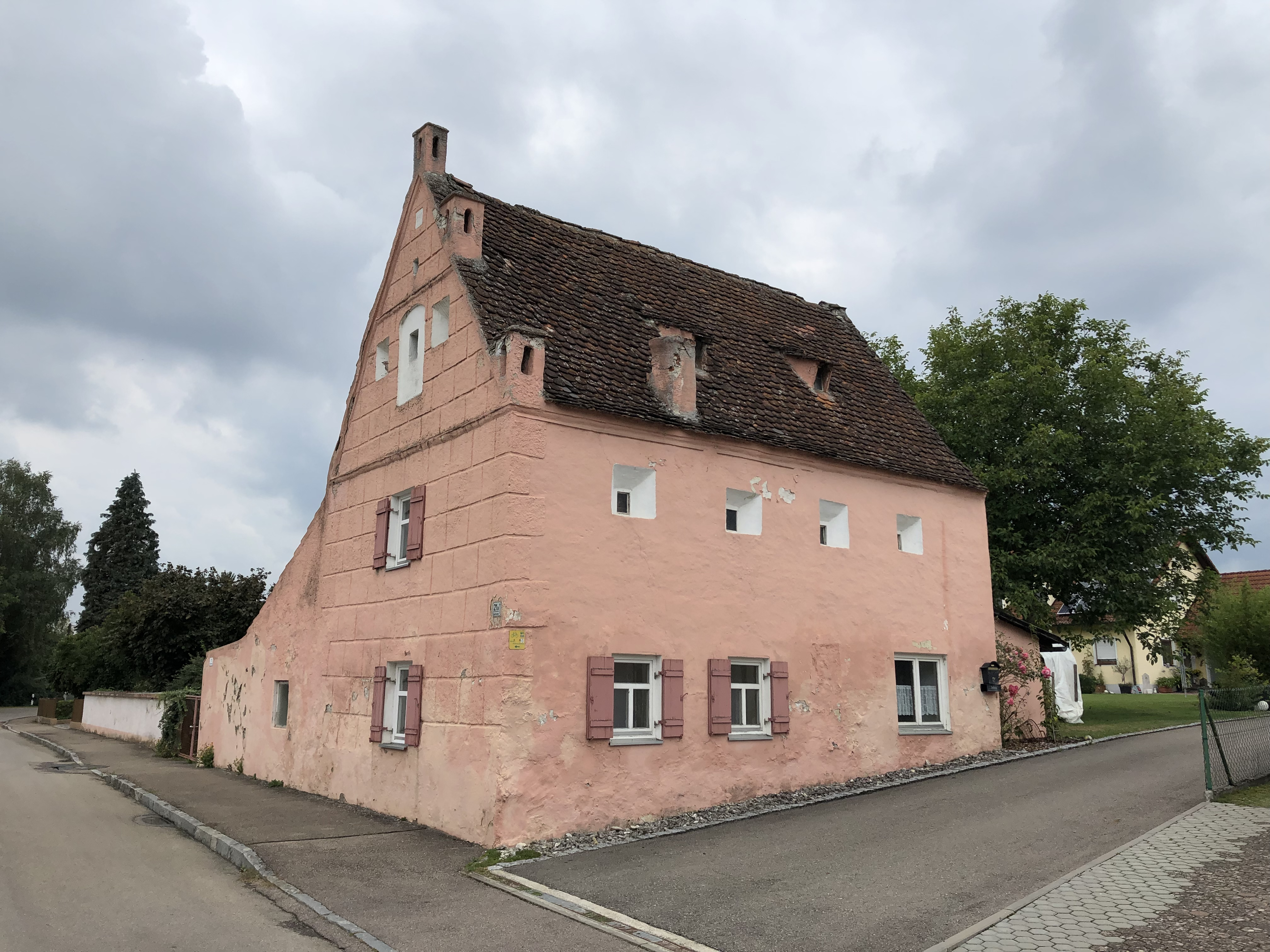 Little castle of Hatzenhofen